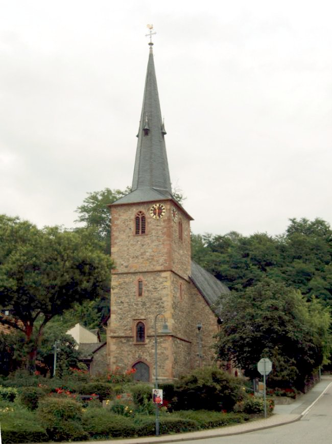 Church in Laudenbach